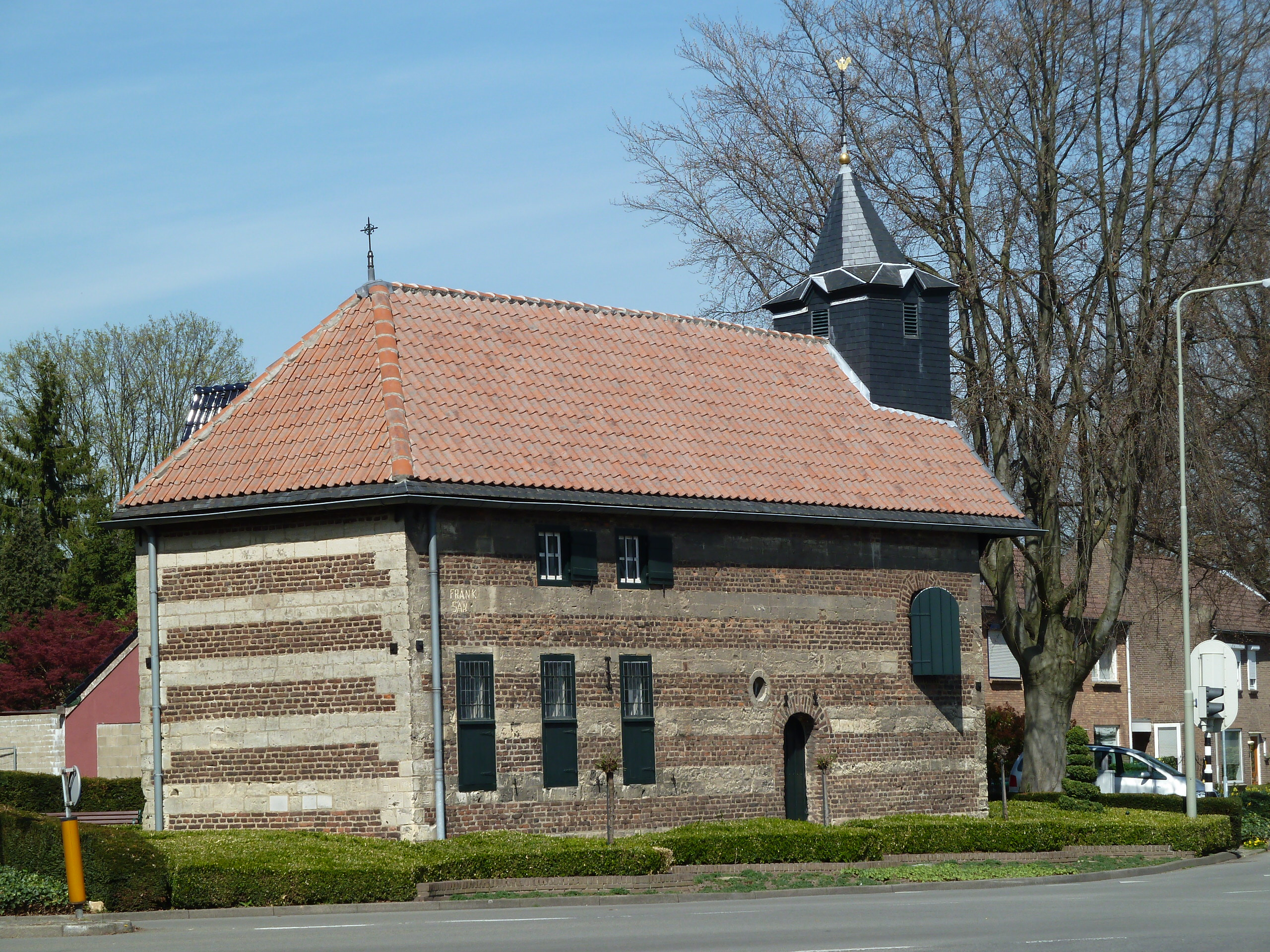 Sint-Janskluis, Geleen, Limburg, the Netherlands